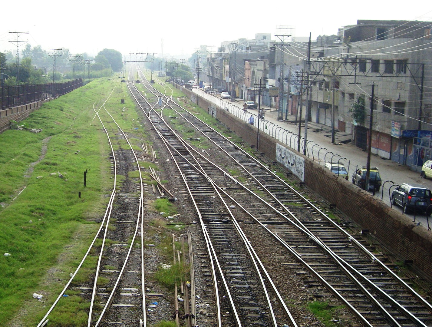 Rawalpindi railway station This is a photo of a monument in Pakistan identified as the PB-U-48